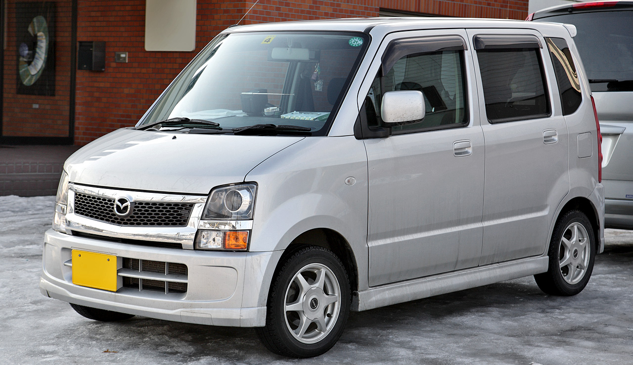 Third generation Mazda AZ-Wagon ( MJ21S or MJ22S )